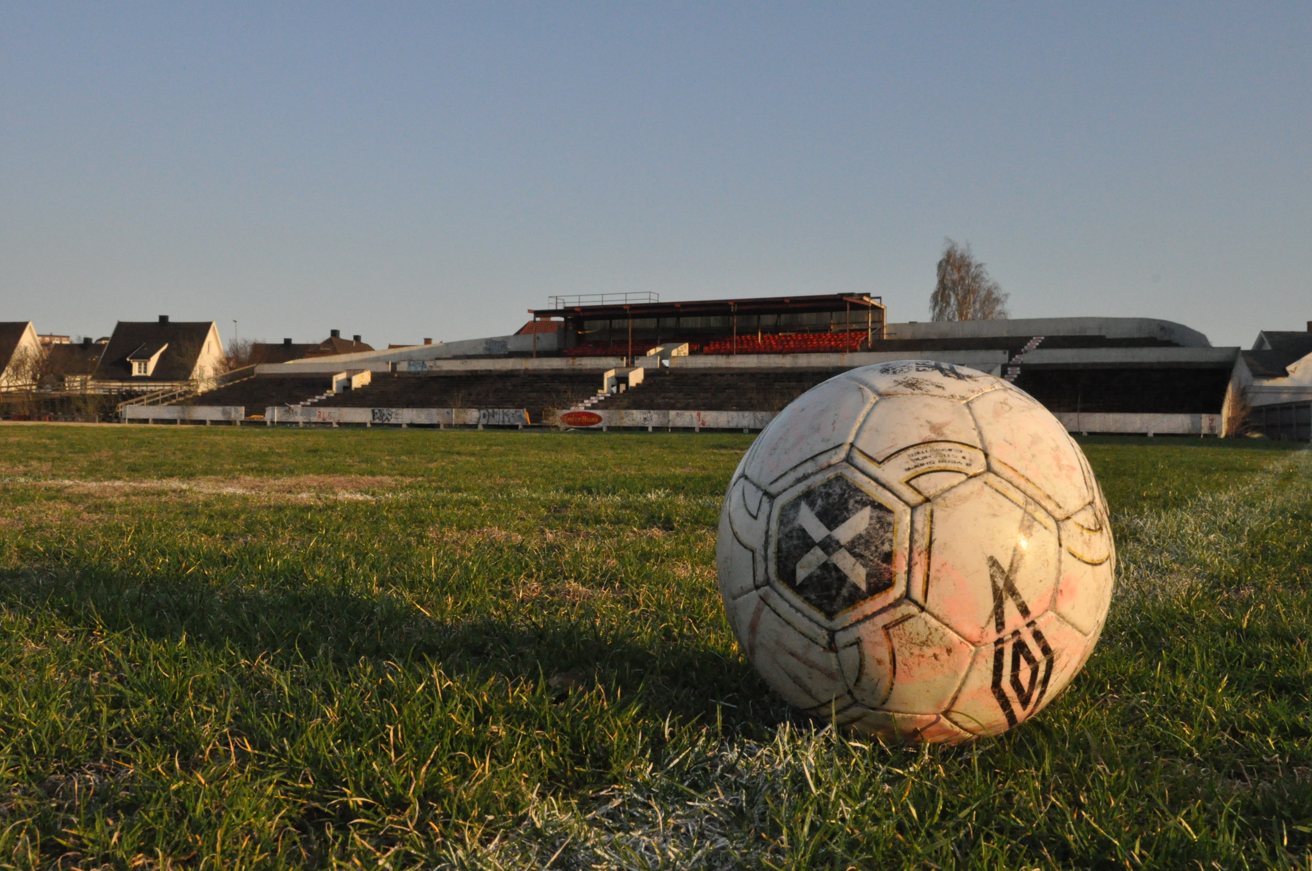 Former home of Fredrikstad Fotballklubb